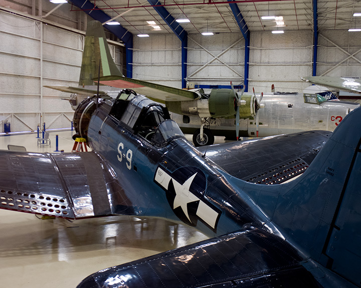 World War II SBD dive bomber at the Lone Star Flight Museum in Galveston